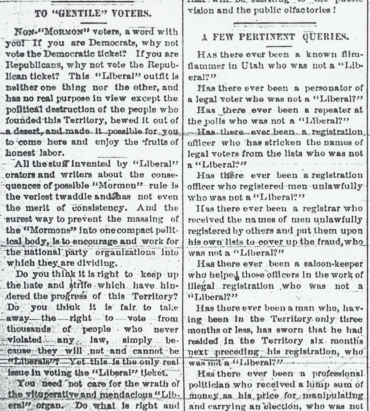 The Deseret Evening News blasts the Liberal Party of Utah in a characteristic column from July 28, 1891. The anti-Mormon liberal party had taken over Salt Lake City government in 1890. These columns were published after the Deseret News-backed People's Party was dissolved into national parties in 1891. Two months after these columns were published, the territorial legislative election was held. One third of all representatives elected were Liberal, an all-time high.